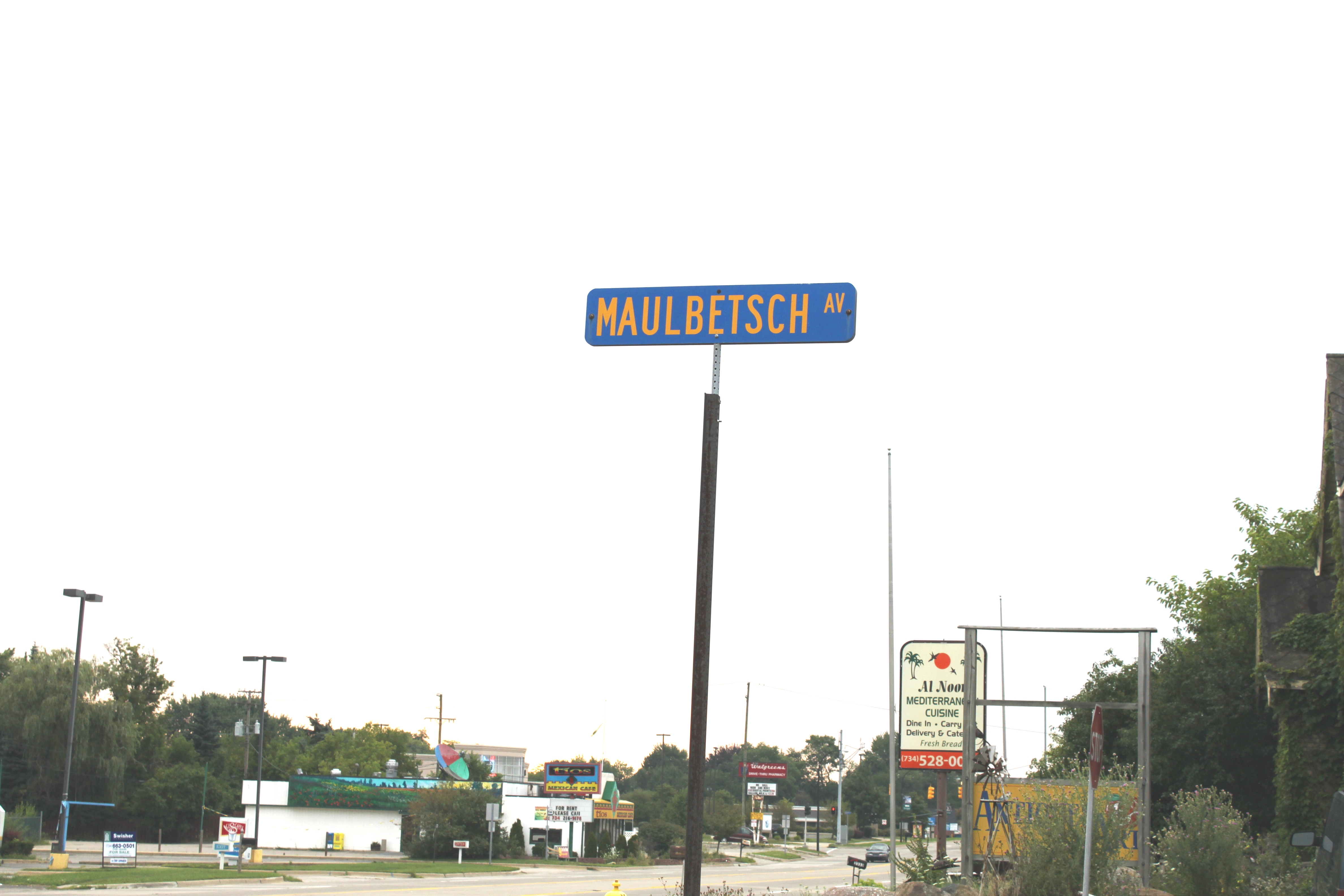 Maulbetsch Avenue street sign, Ypsilanti Township, Michigan at Washtenaw Avenue. Named after John Maulbetsch.